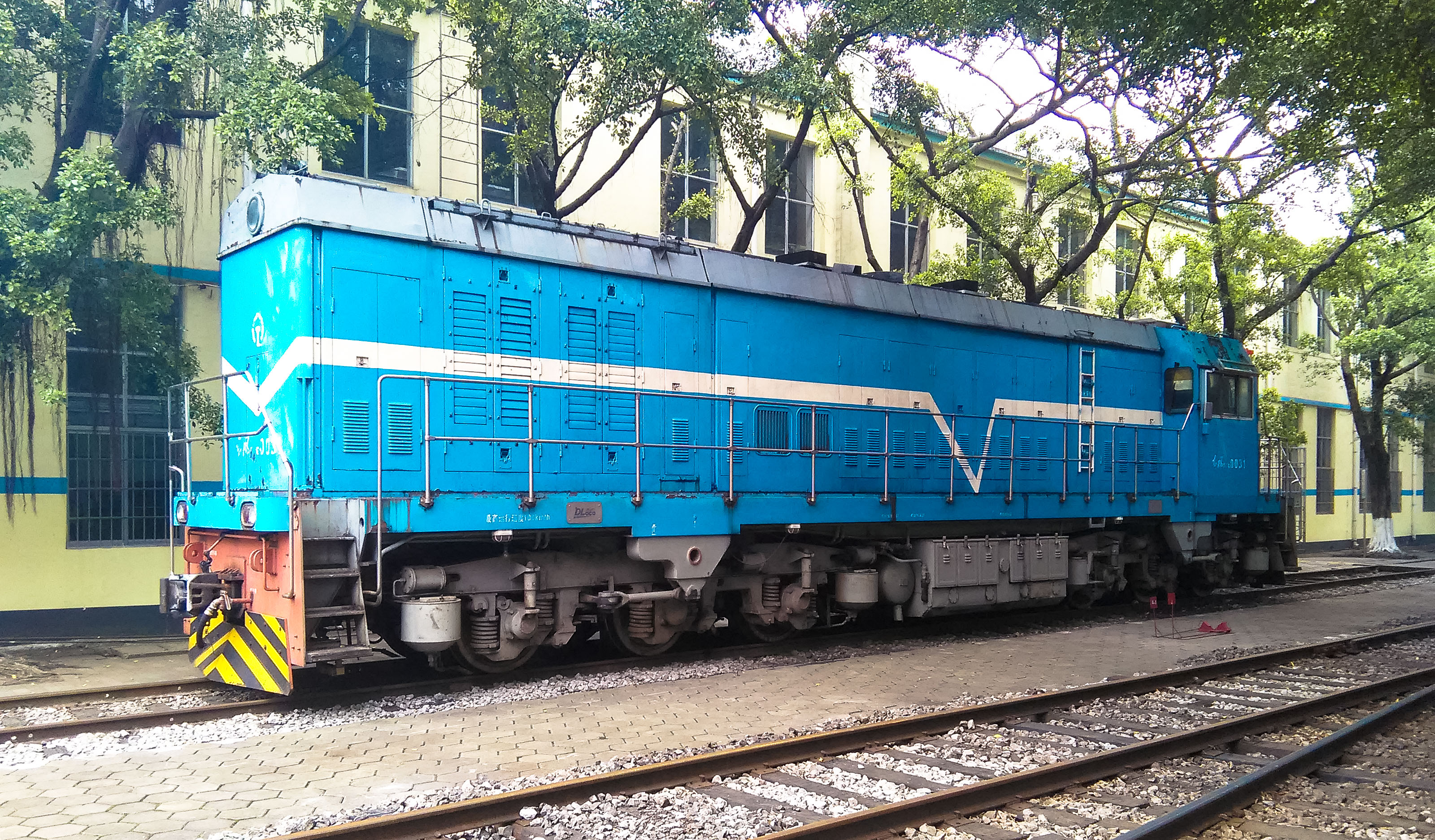 DF5B(G) 0031 in Liuzhou Locomotive Depot.